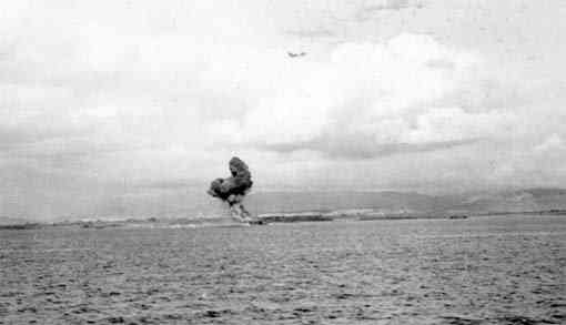 USS Porcupine (IX-126), filled with aviation fuel, is struck by a kamikaze plane about 15:49, 30 December 1944, off White Beach, Mangarin Bay, Leyte, PI. Porcupine was attacked by five Japanese Vals. The successful attacker dropped a bomb on Porcupine, then crashed into the ship, killing seven of her crew and wounding eight others. Attempts to stop the resulting fire from reaching the aviation fuel failed. Porcupine burned to the water line.